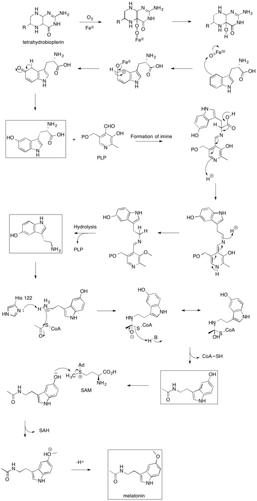 meltonin biosynthesis mechanism adricorr7